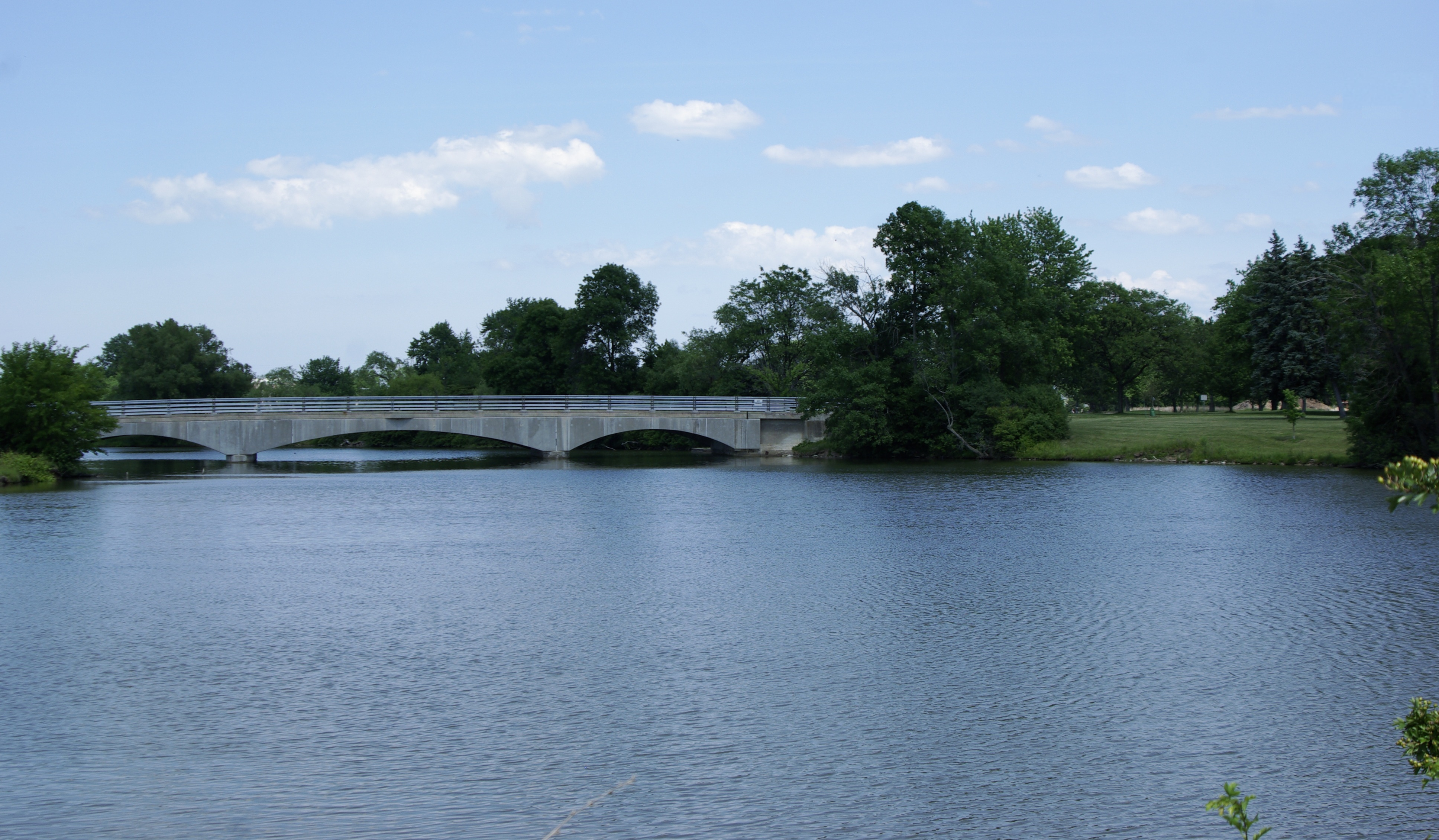 A photograph of Hyde Park in Niagara Falls, New York